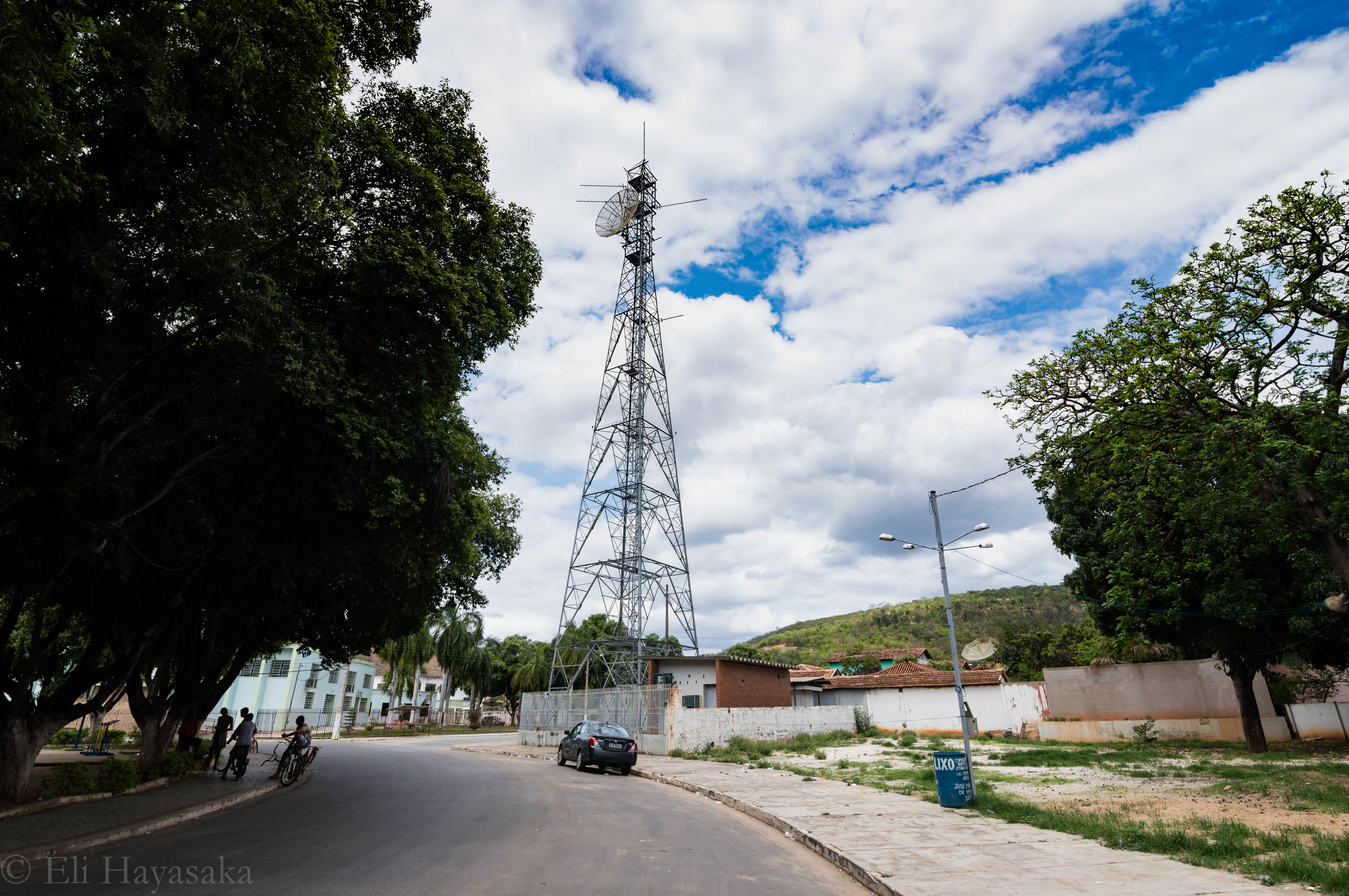 Communication tower in Galileia, Minas Gerais, Brazil.